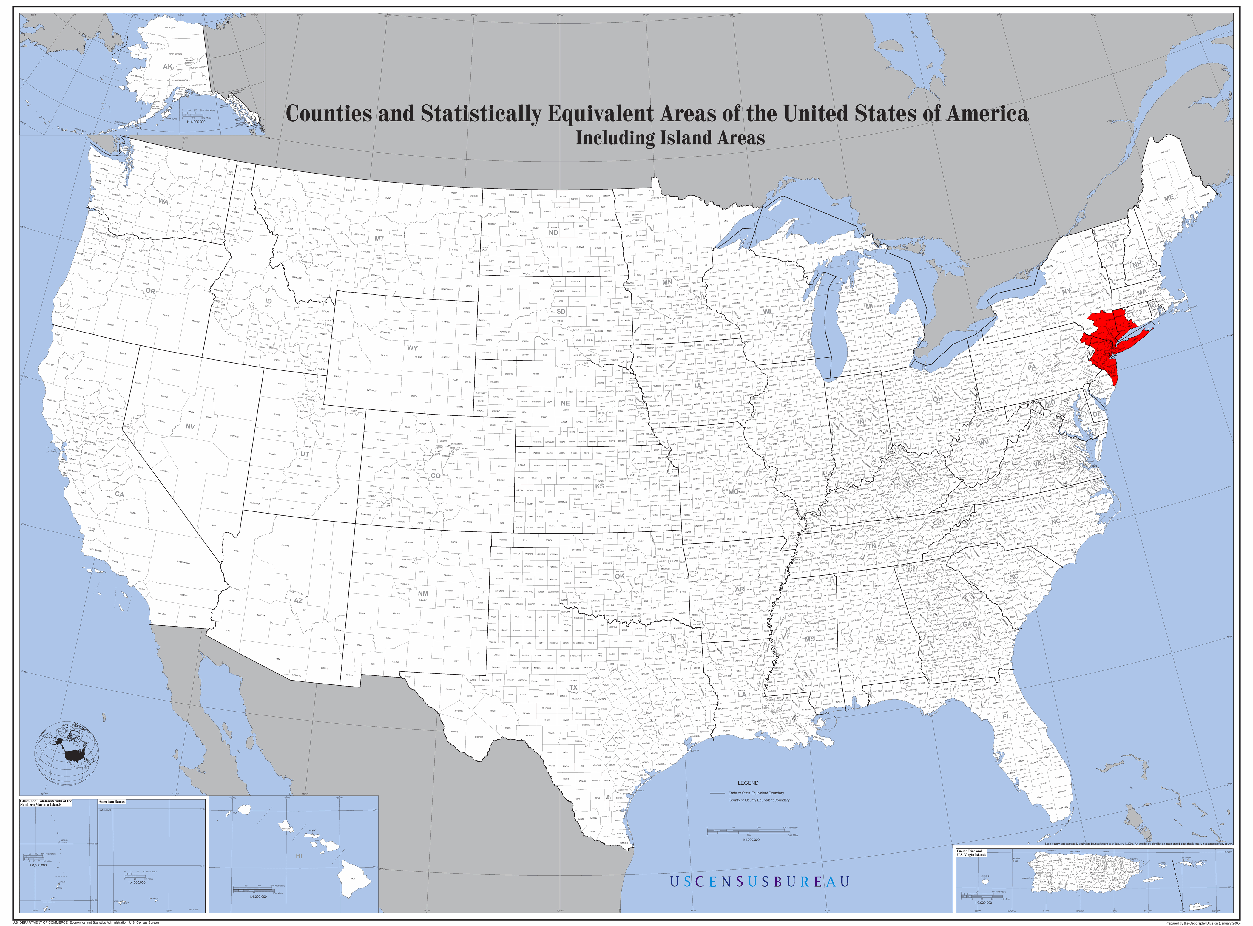 Map of Counties with New York Metropolitan Area highlighted.